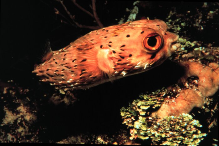 Long-spine porcupinefish (Diodon holocanthus) — this is not a pufferfish. Image from the U.S. National Oceanic and Atmospheric Administration. Image ID: nur00511, National Undersearch Research Program (NURP) Collection Location: Tropical Atlantic Ocean, Florida Keys. Photo Date: 1991 June Photographer: R. Steneck Credit: OAR/National Undersea Research Program (NURP); University of Maine